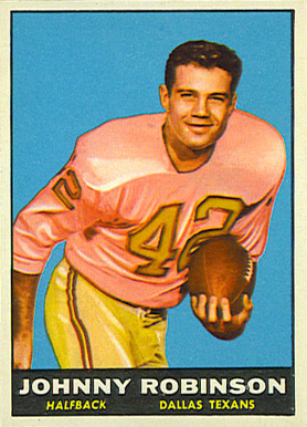 American football player Johnny Robinson of the Dallas Texans on a 1961 trading card